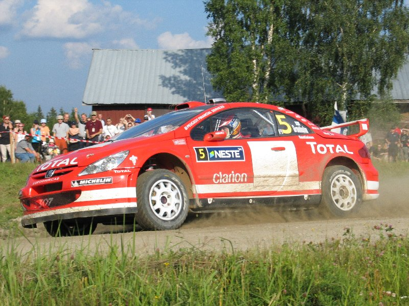 Marcus Grönholm driving his Peugeot 307 WRC at the 2004 Rally Finland.